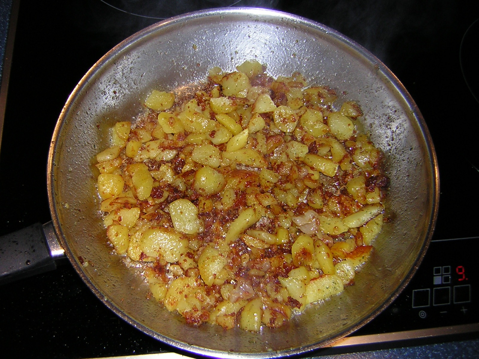 fried potatoes / Home fries (German style)